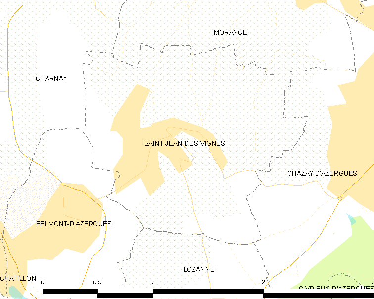 Map of French municipality